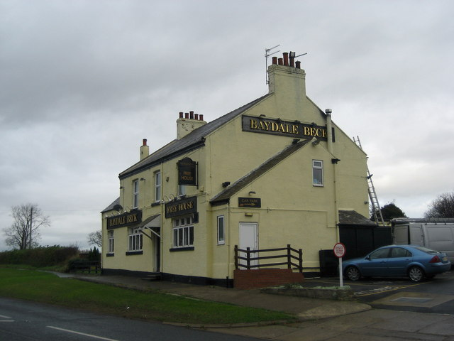 Baydale Beck Public House. The public house on a grey wet day, as encountered when the Teesdale Way met the A67 just outside Darlington.